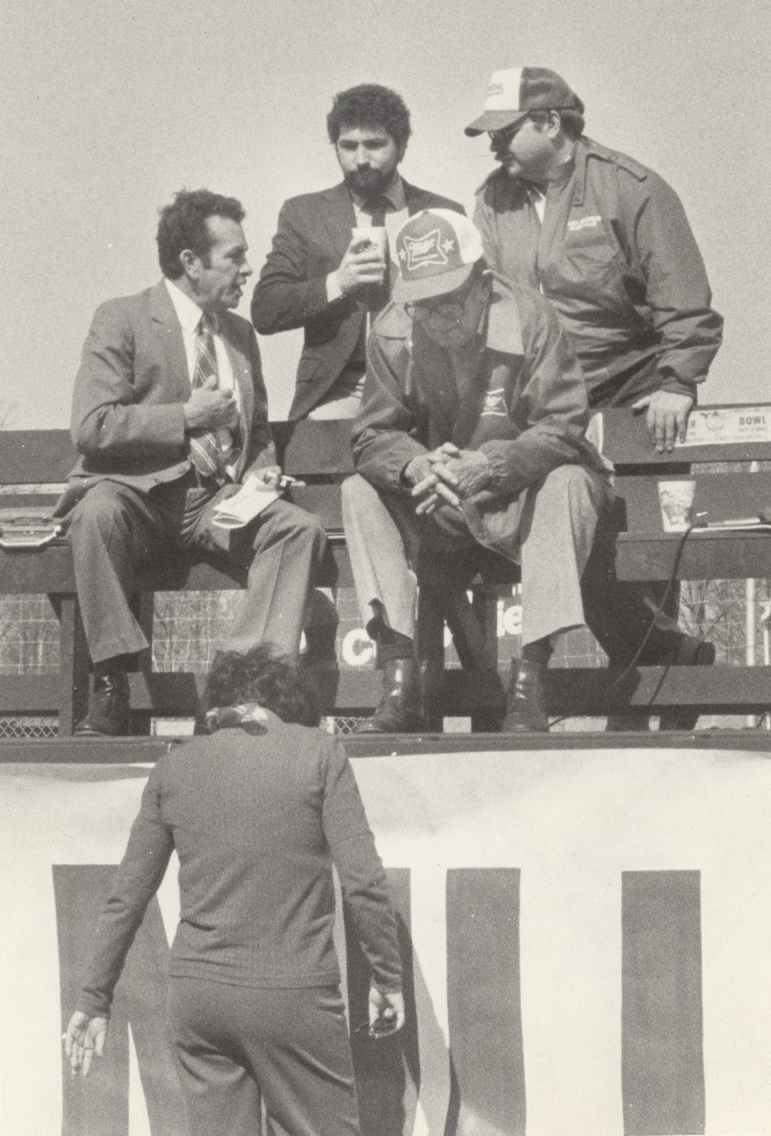 Joe Moore, Ray Melton and Sammy Bland at Richmond International Raceway when they were track announcers.